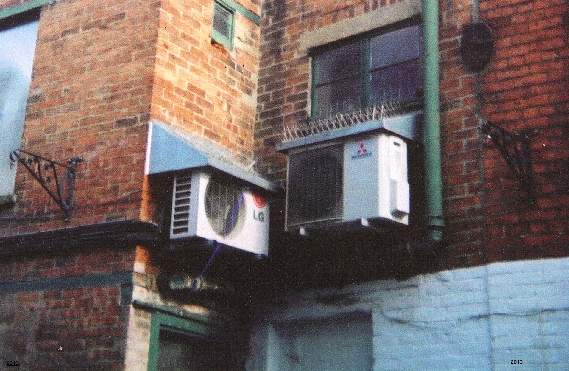 Mitsubishi and LG air conditioning unit at a shopping mall in Banbury in 2010.